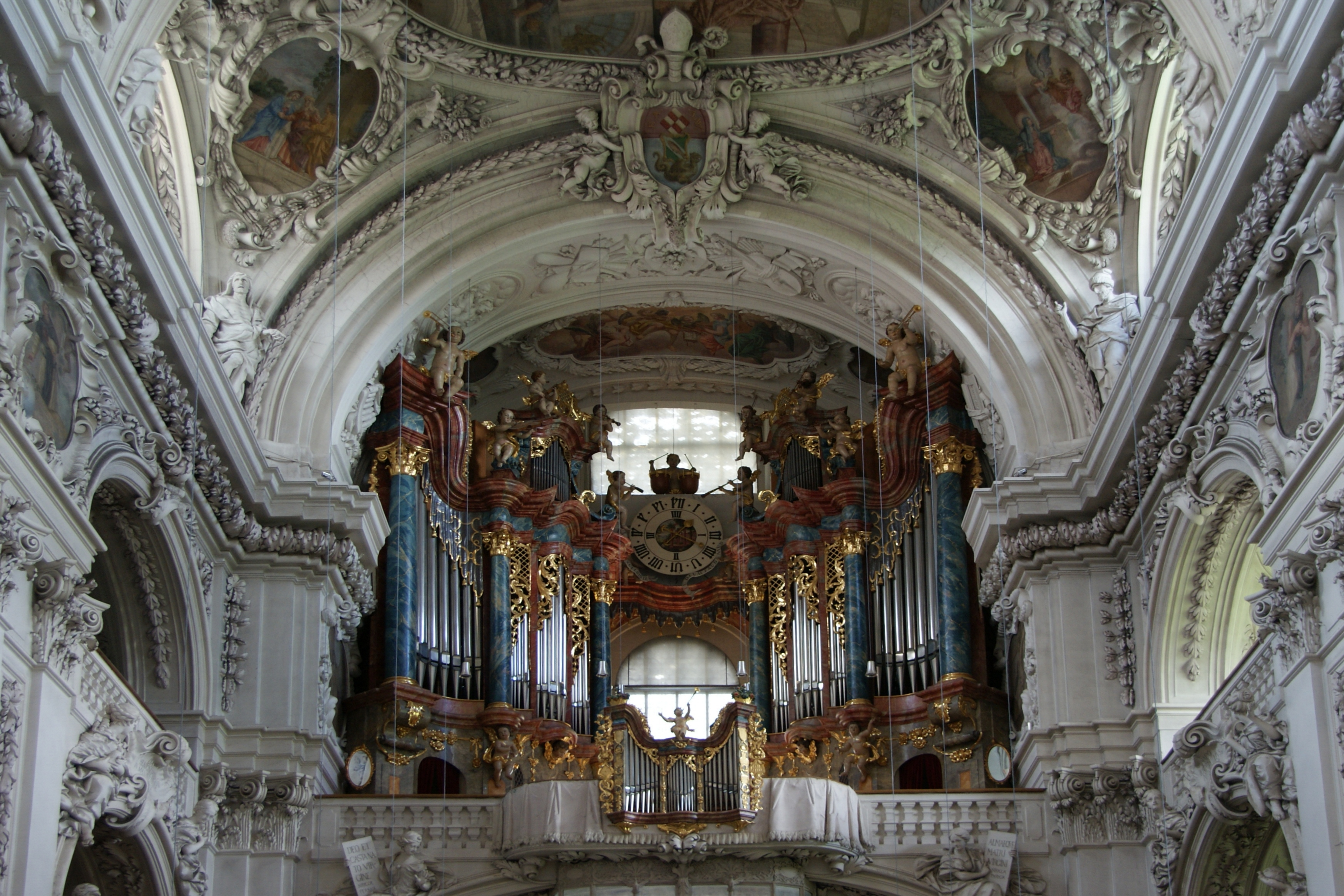 Waldsassen Abbey, main organ